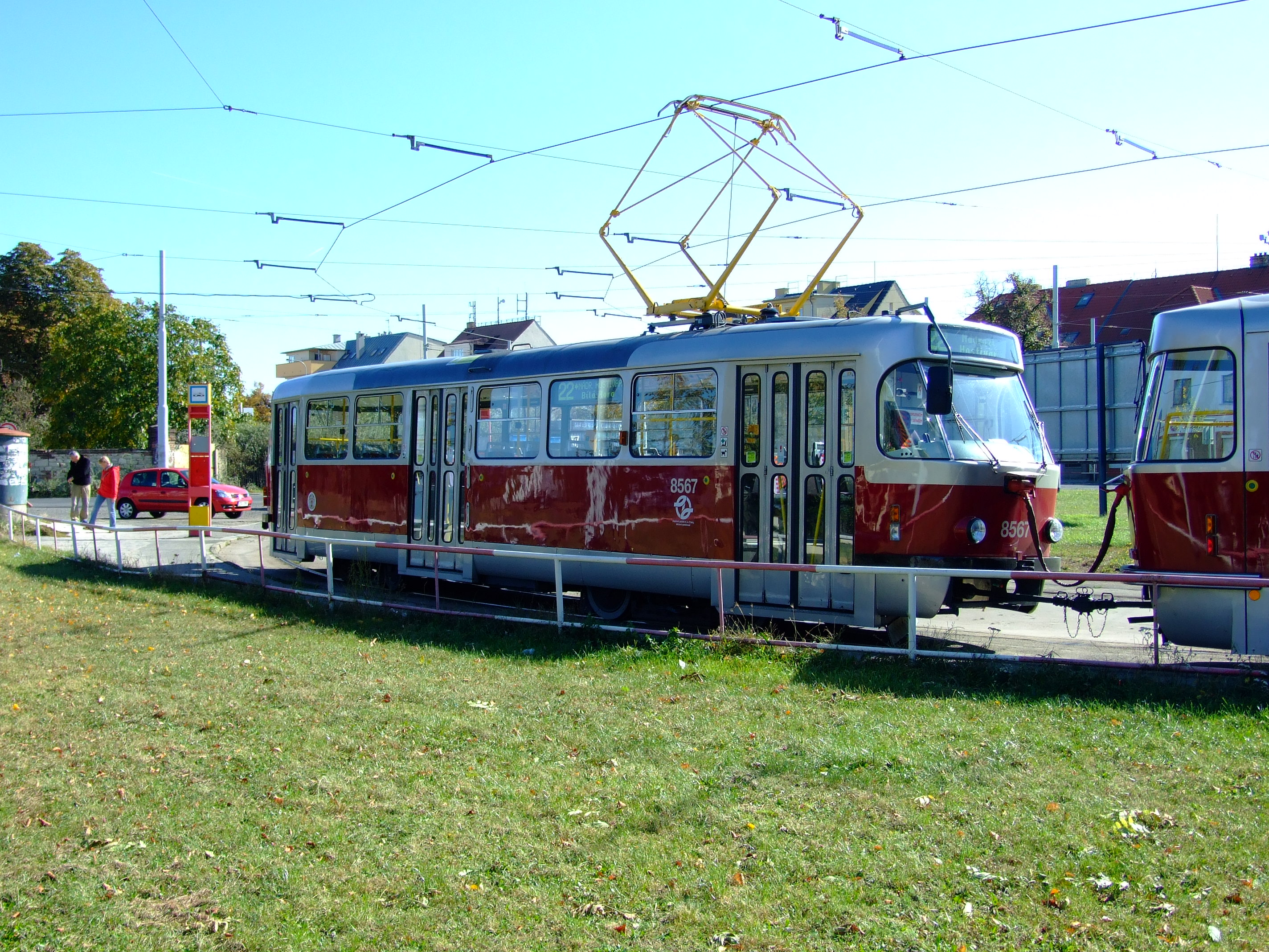 Tram in Prague-Bílá Hora tram terminushelp